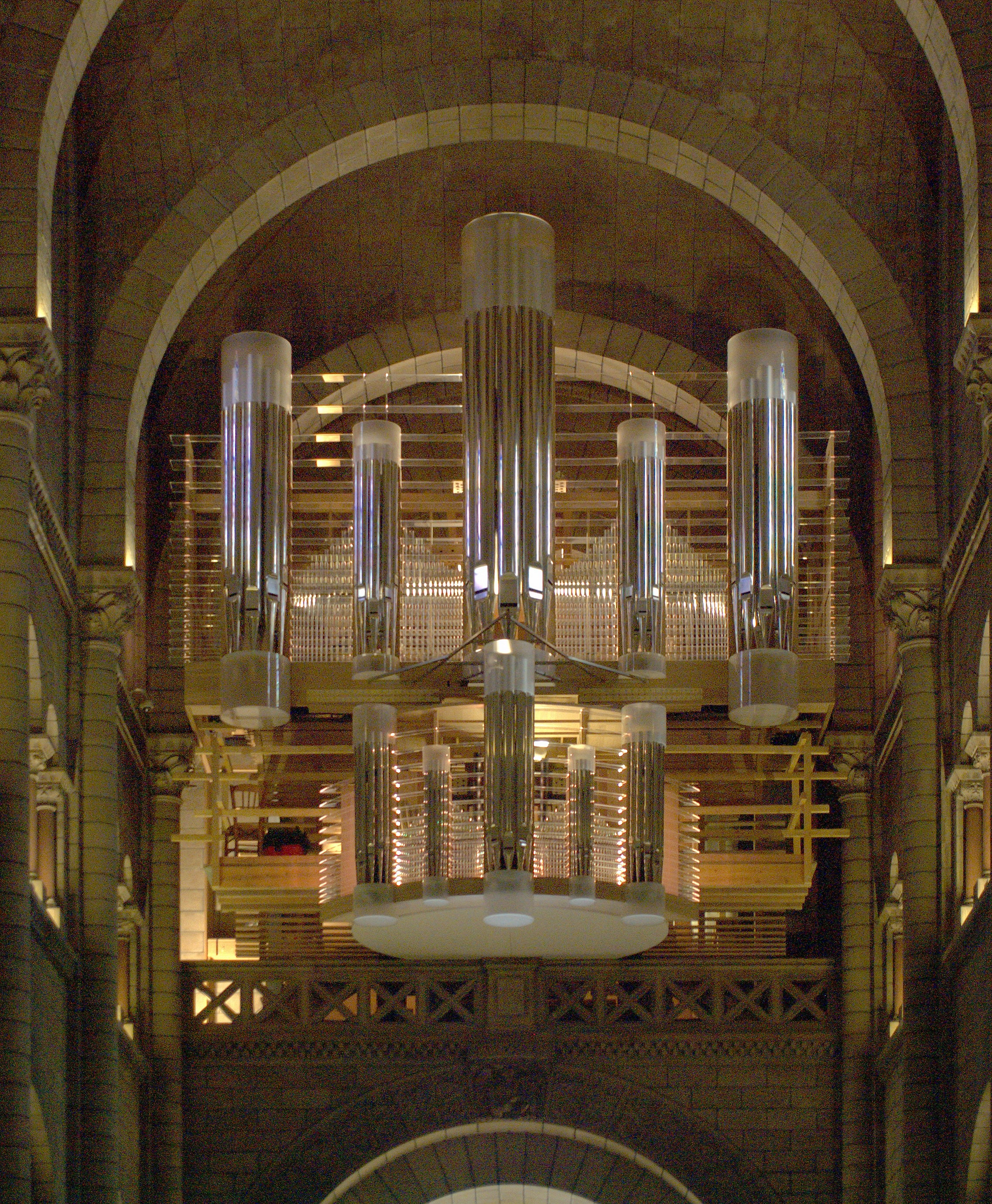 Monaco, cathedral Notre-Dame-Immaculée, organ